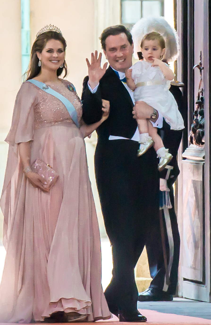 Madeleine of Sweden, Christopher O'Neill and Princess Leonore in June 2015.